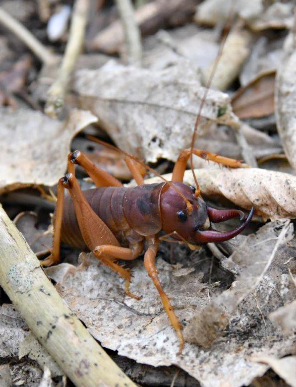 Mercury Islands tusked weta (Motuweta isolata) on Korapuki Island